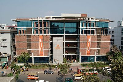 Campus